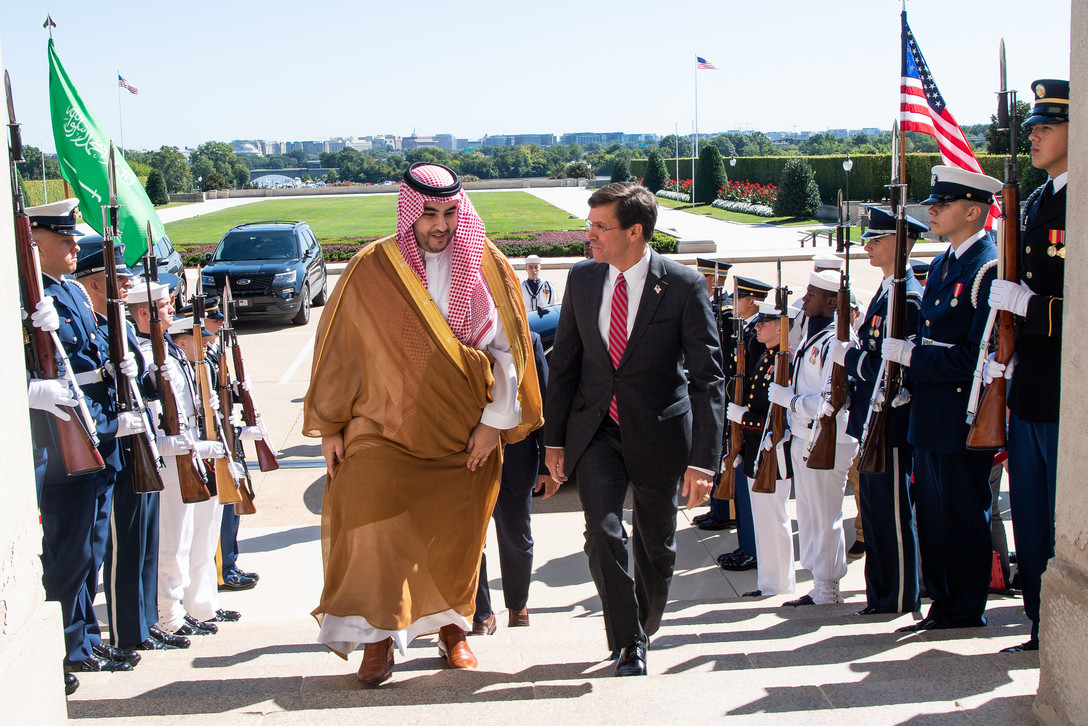 U.S. Secretary of Defense Dr. Mark T. Esper hosts Saudi Vice Minister of Defense His Highness Prince Khalid bin Salman at the Pentagon, Washington, D.C., Aug., 29, 2019. (DoD photo by U.S. Army Staff Sgt. Nicole Mejia)